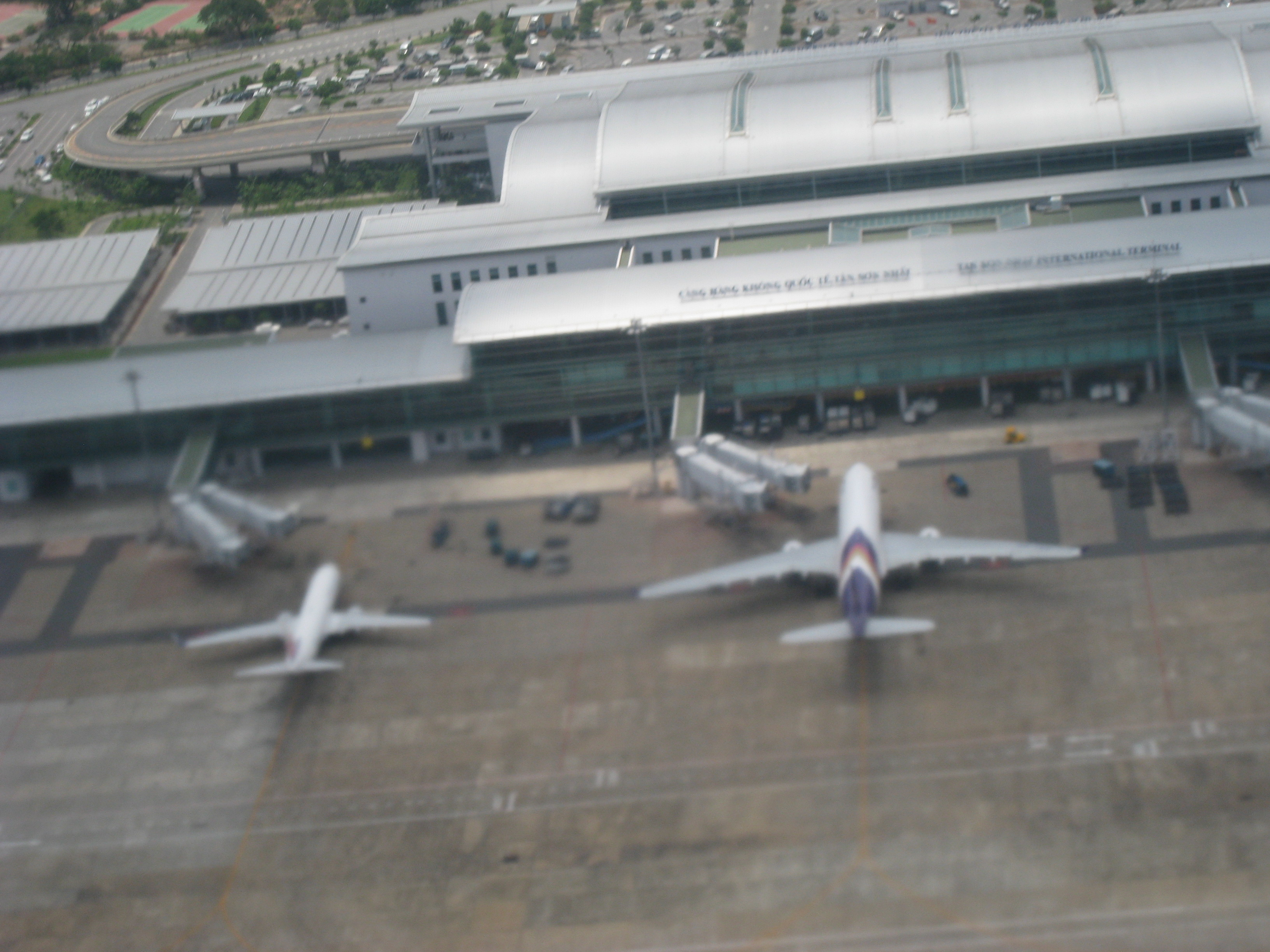 Tan Son Nhat Airport, Vietnam